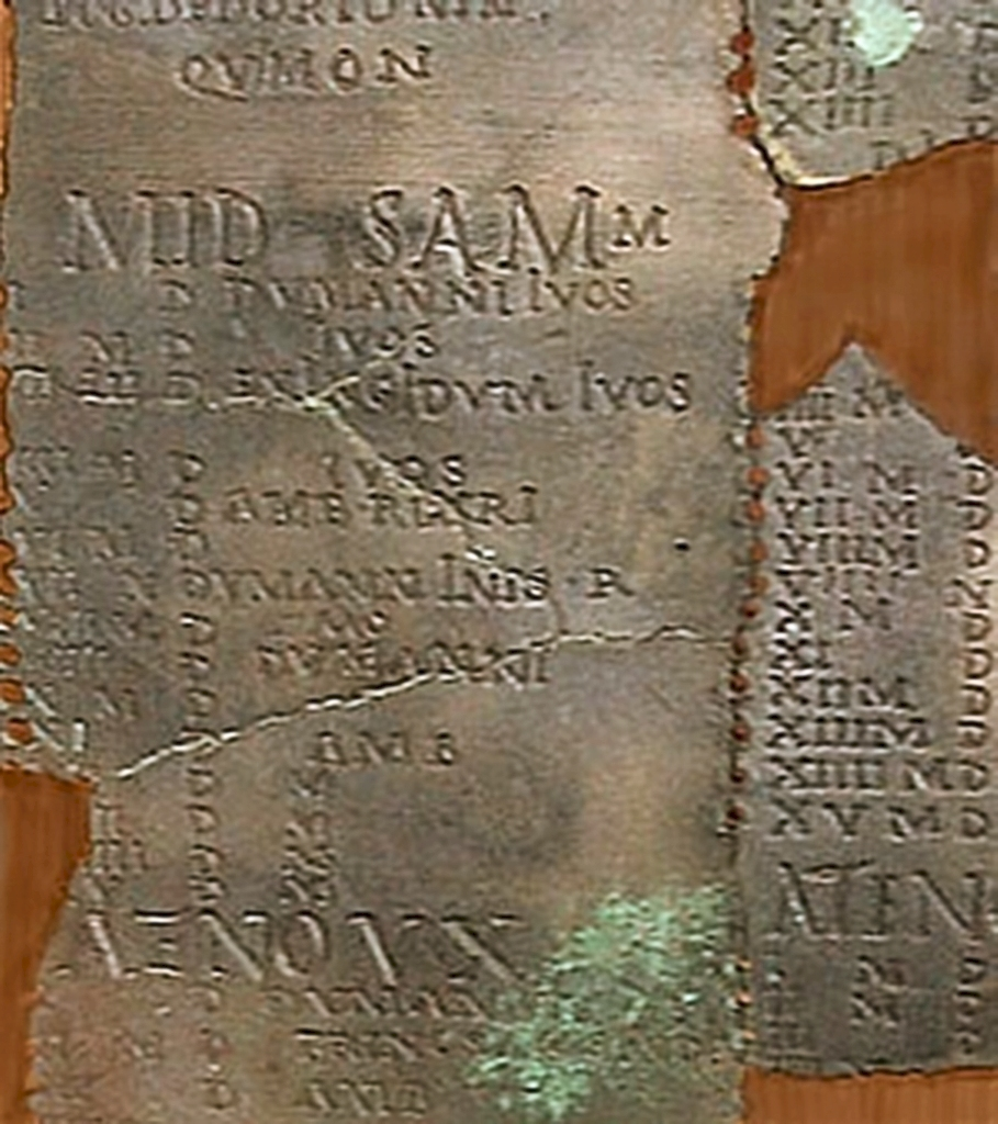 Closeup of the Coligny Calendar.